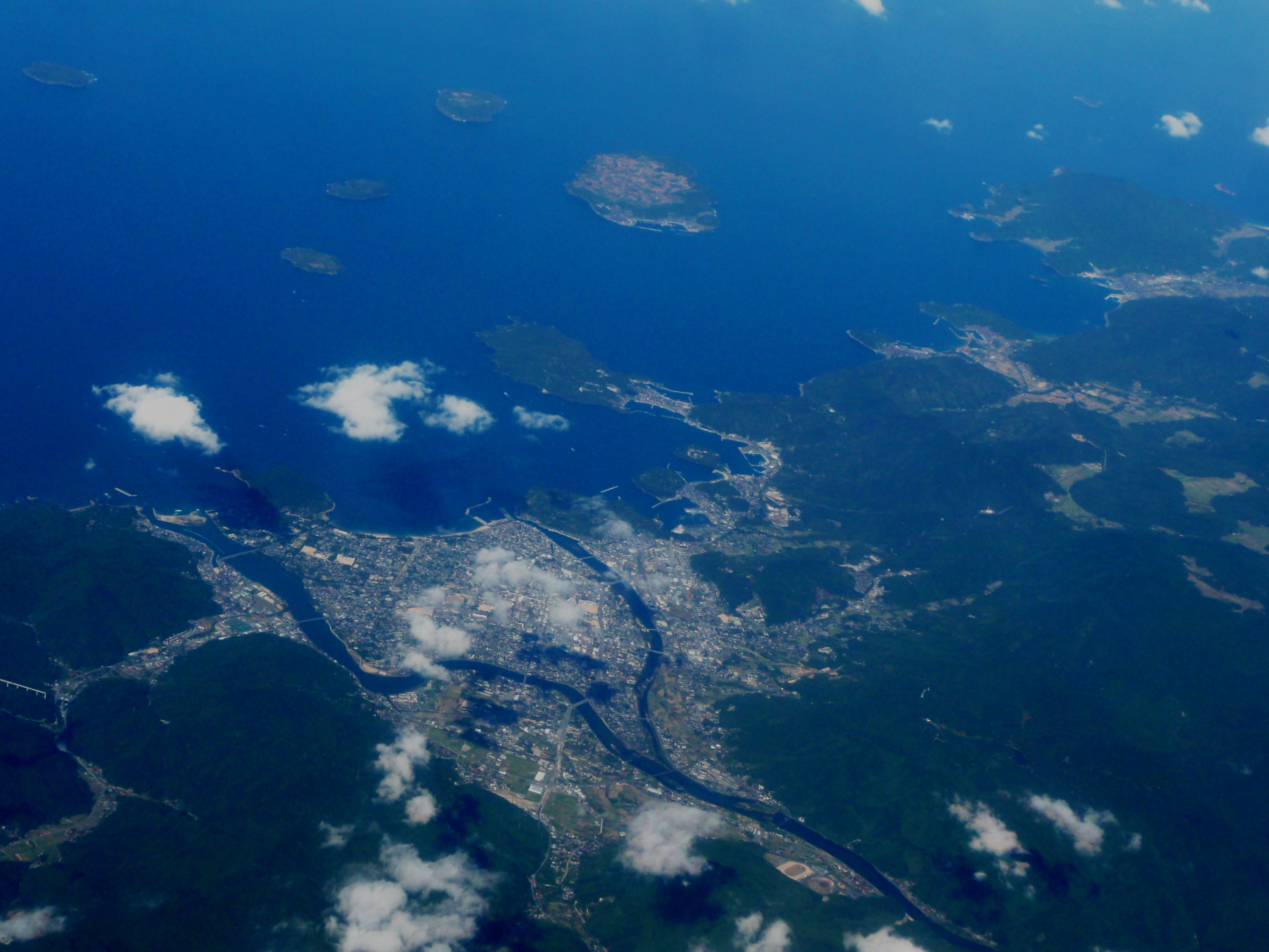 萩市